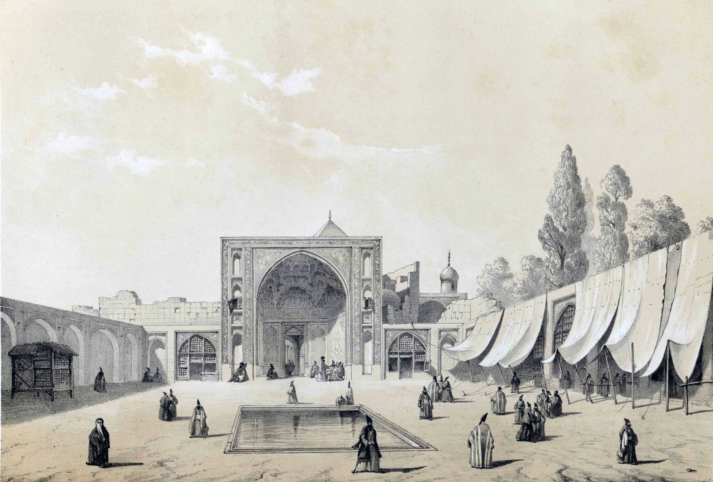 Masjid i Shah , or Royal Mosque , Tehran